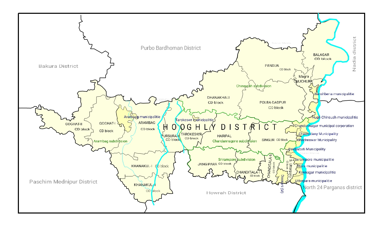 Map of Hooghly District showing subdivisions CD Blocks and municipalities areas